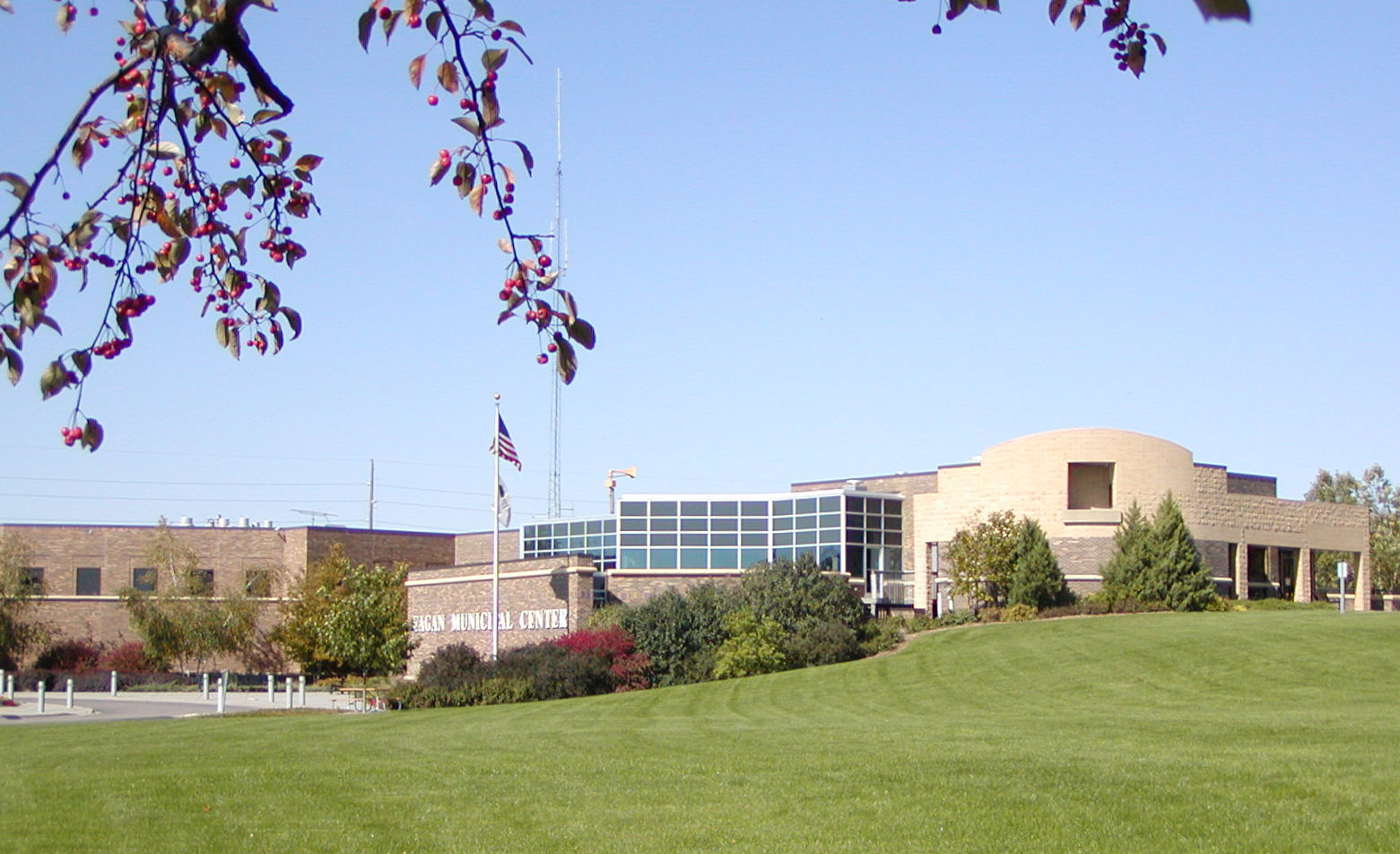 The city hall in Eagan, Minnesota